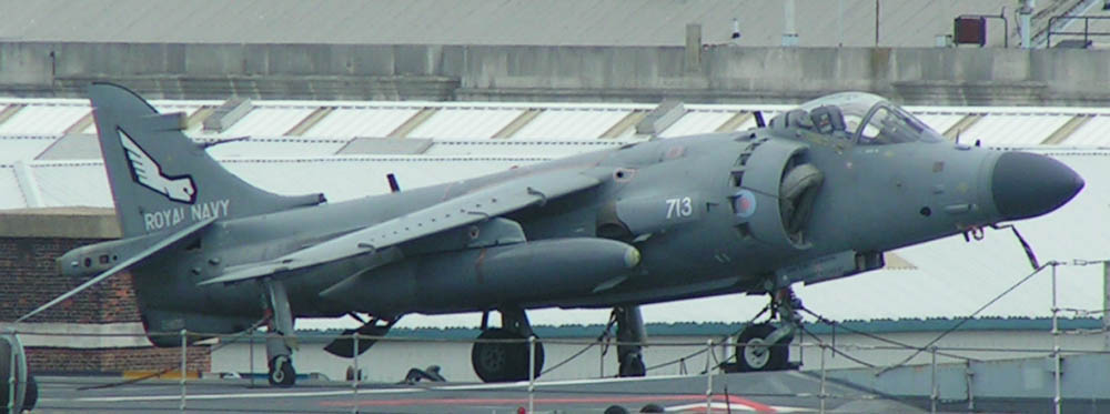 A British Aerospace Sea Harrier FA.2 of the Royal Navy on HMS Invincible (R05) deck